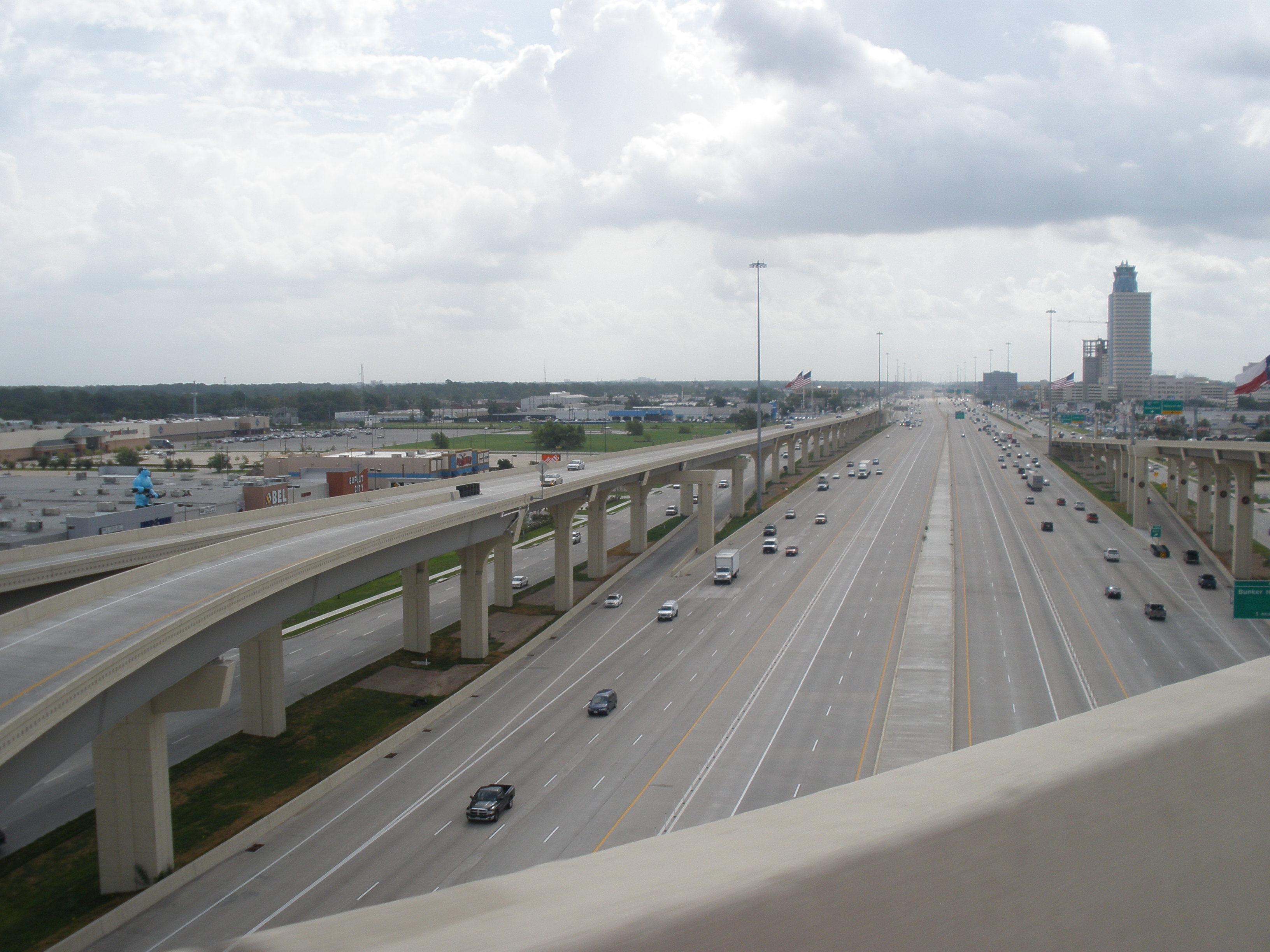 The new IH-10 "Katy Freeway" in Houston, with managed lanes (HOV + EzTag). View towards East from connector ramp with West Sam Houston Tollway (Beltway 8), close to Gessner